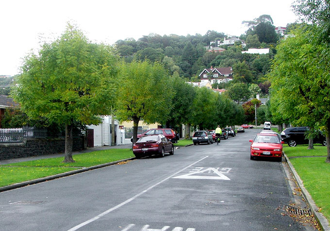 Valpy Street, Saint Clair, Dunedin, New Zealand. Photograph by James Dignan (User: Grutness), March 9, 2009.